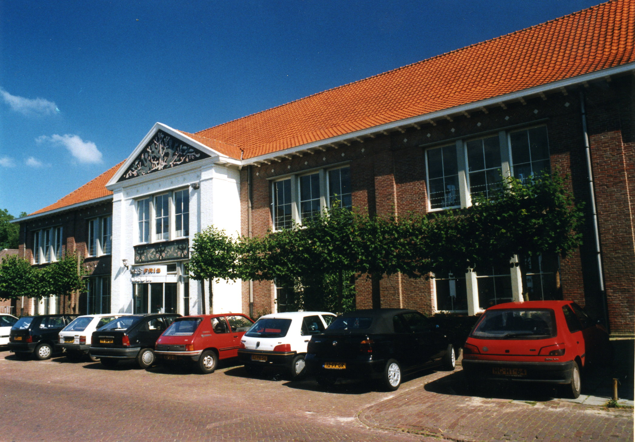 Dutch National Museum for Liqueurs and Soft Drinks Isidorus Jonkers, Hilvarenbeek, 2001.